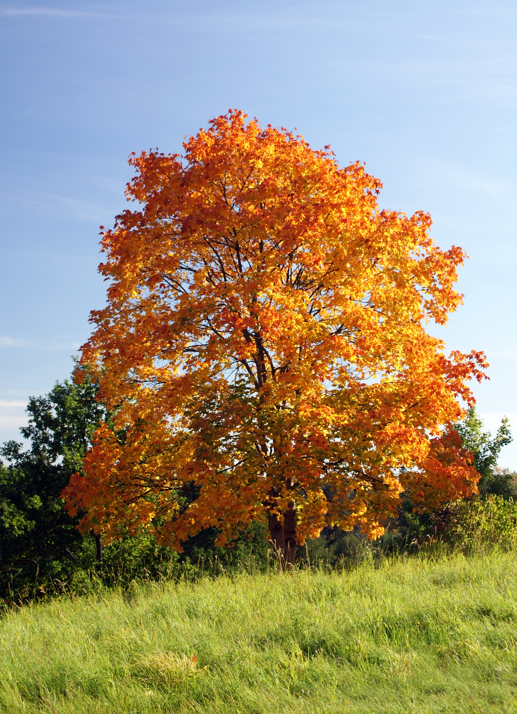 Acer platanoides in autumn colors.